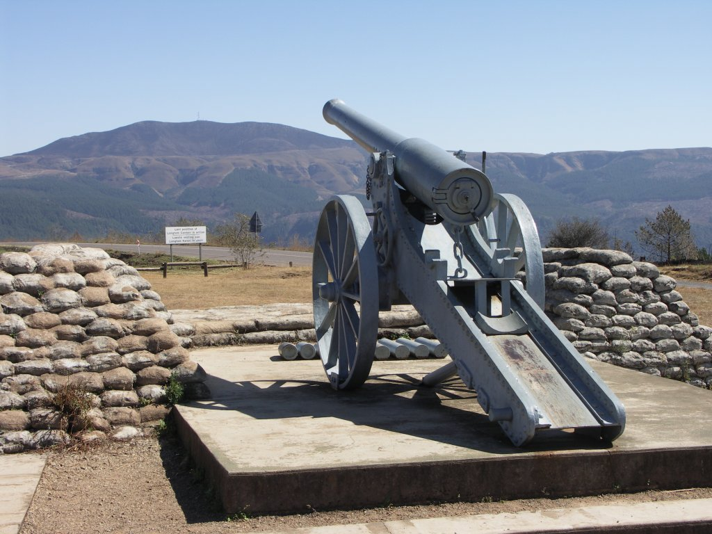 Long Tom Canon. Replica of the origional Long Tom cannon in the Long Tom pass between Lydenburg and Sabie, Mpumalanga.